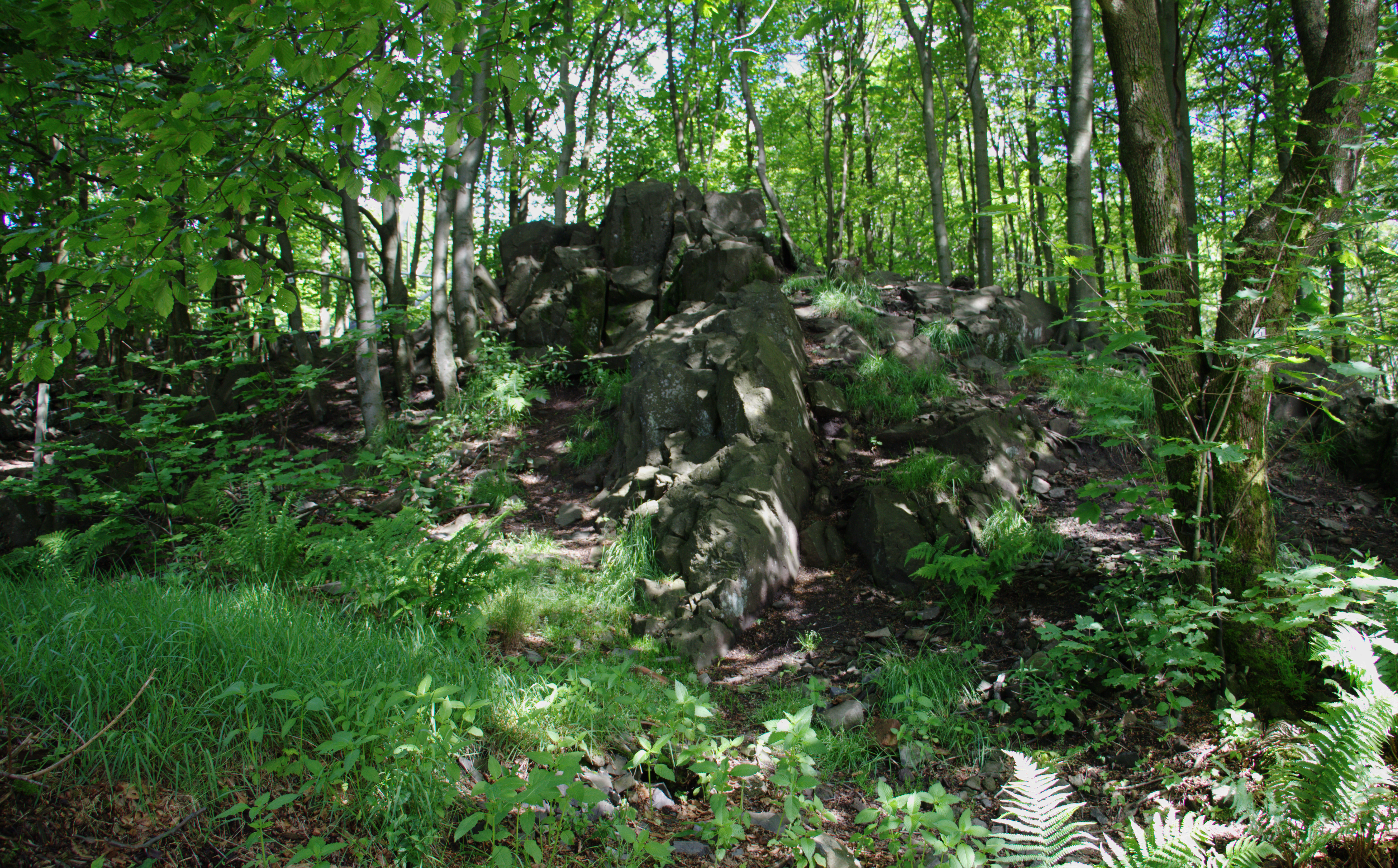 Natural outcrop (Basalt) near Hoherodskopf Schotten, Hesse, Germany